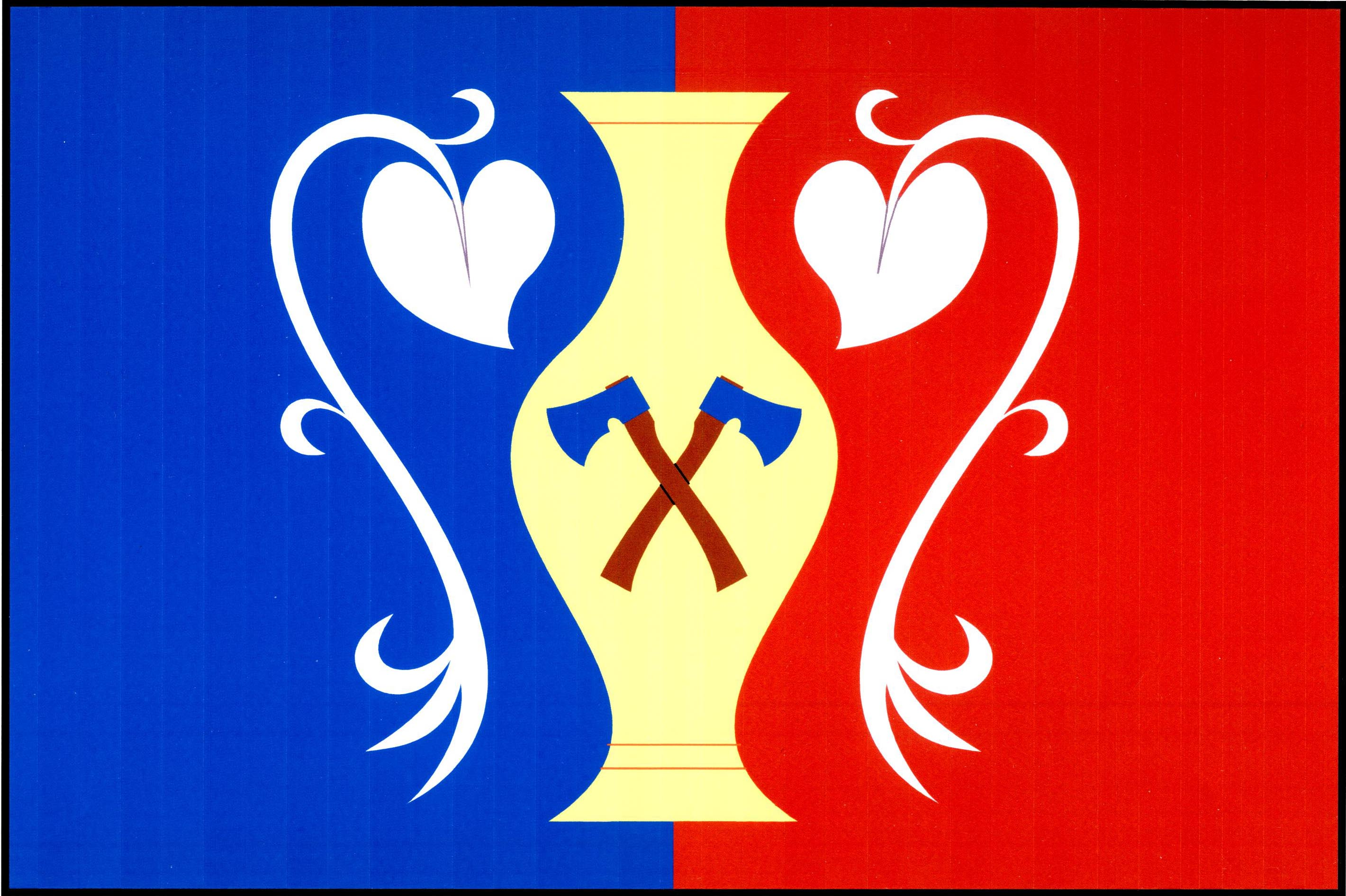 Municipal flag of Mouřínov village, Vyškov District, Czech Republic.